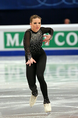 Dutch figure skater Niki Wories at the 2015 European Figure Skating Championships.